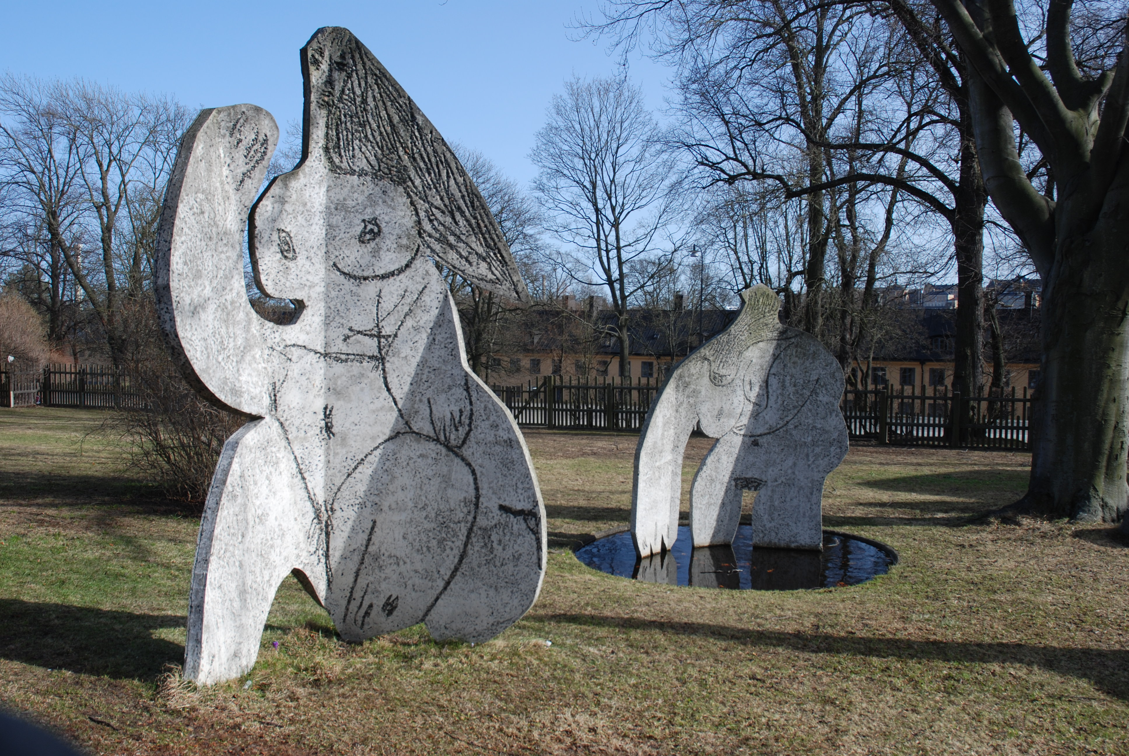 Pablo Picasso´s Dejeuner sur l´Herbe, 1962, Skeppsholmen, Stockholm, Sweden (detail)